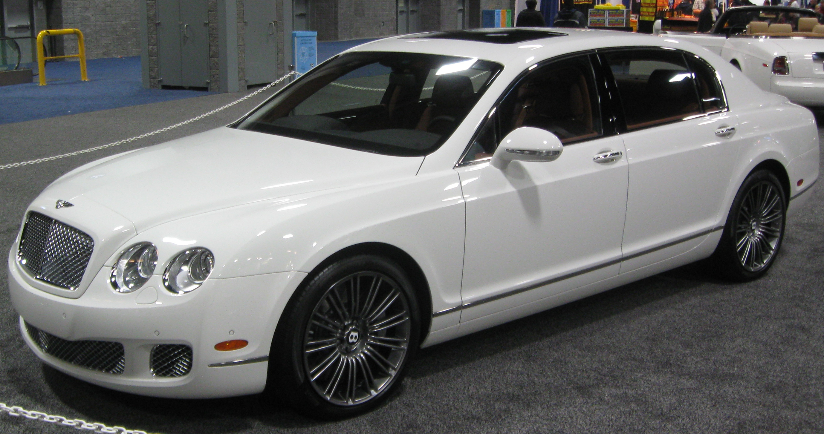 Bentley Continental Flying Spur photographed at the 2011 Washington (D.C.) Auto Show.